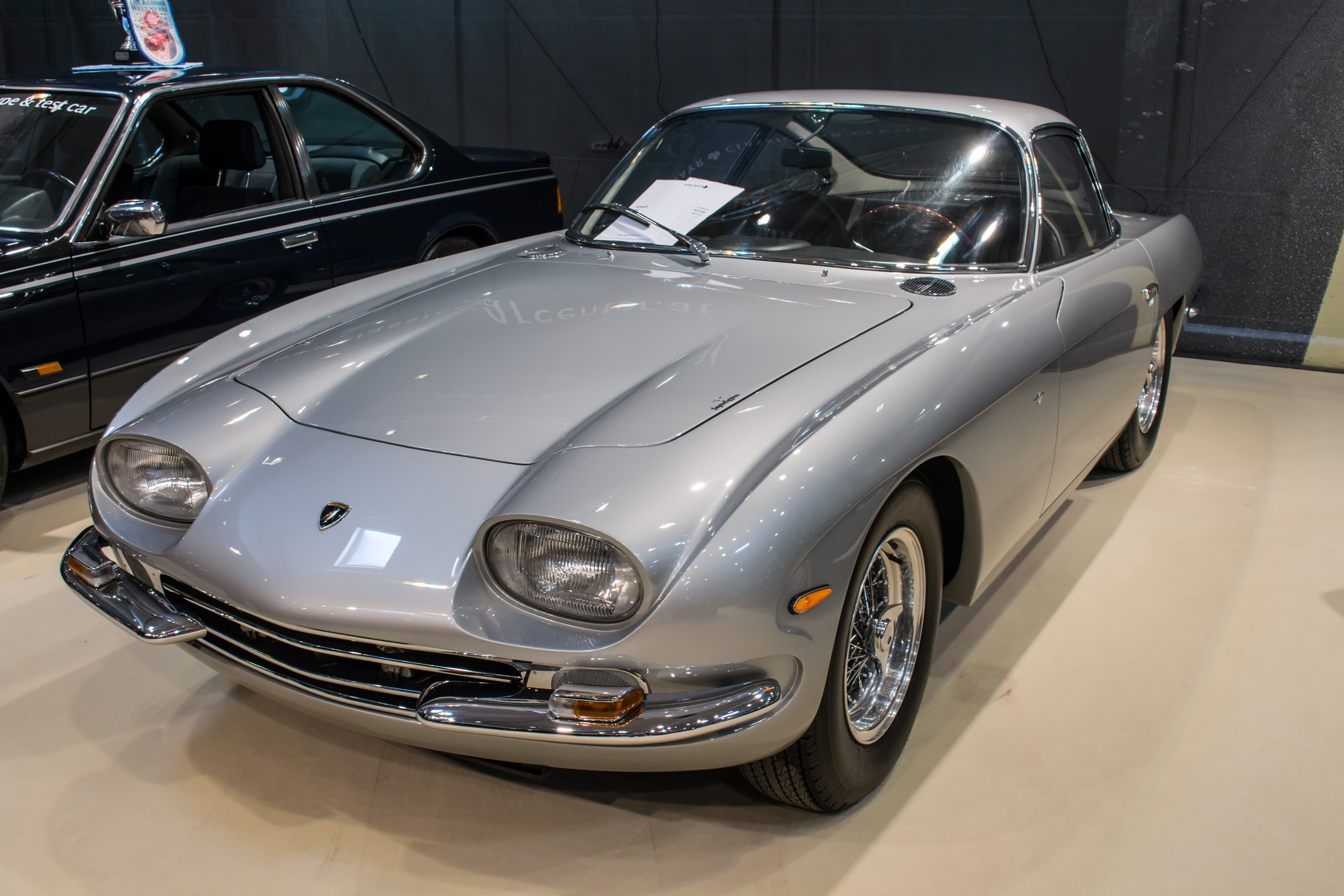 Techno Classica 2018, Essen